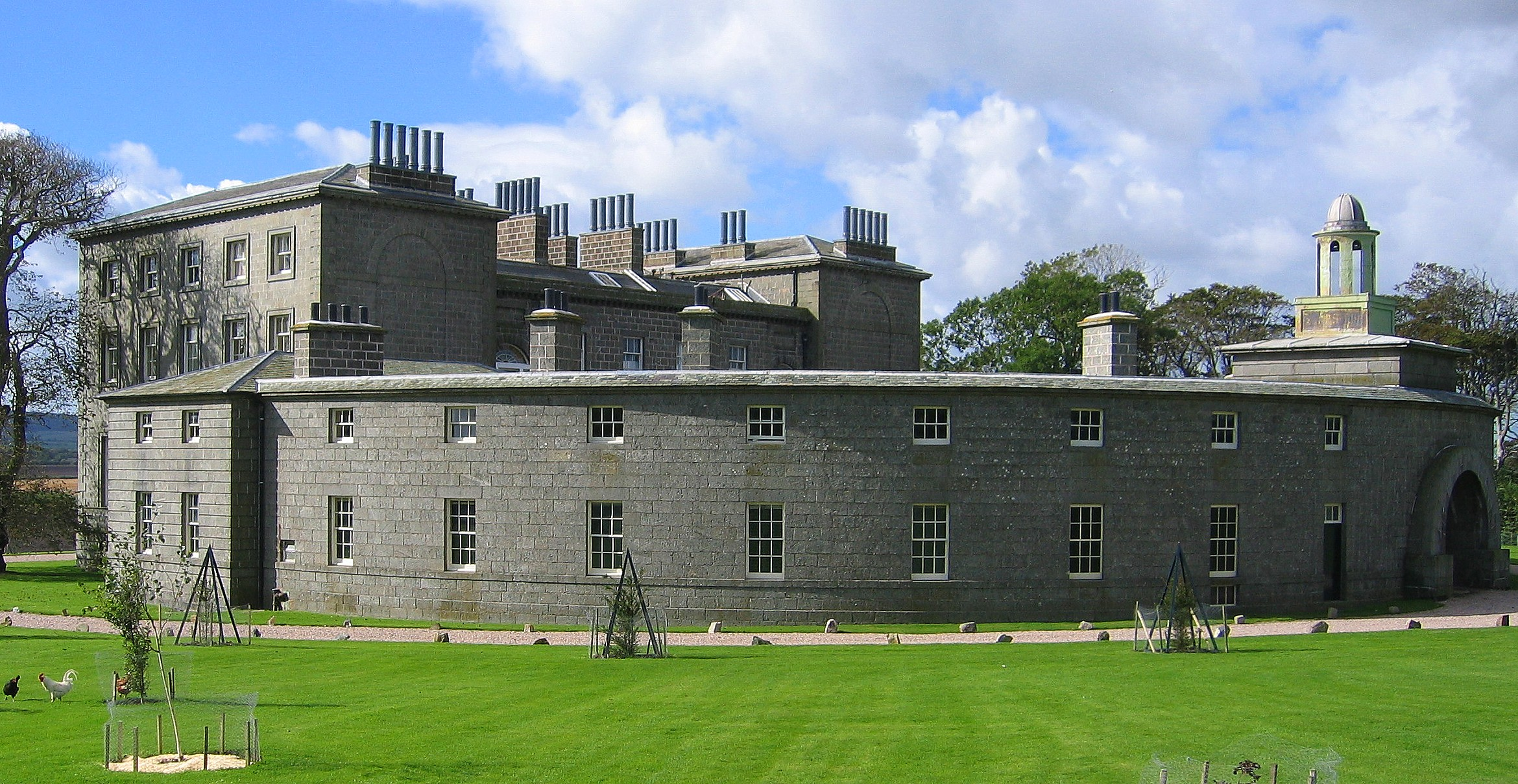 Cairness House: The great Hemycicle from the East. The structure is some 270 ft long and encloses two pavilions and courtyards at the back.